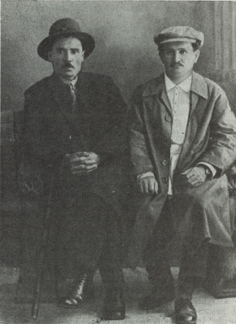 Tatar writers Ibragimov and Akhmetov in Yalta